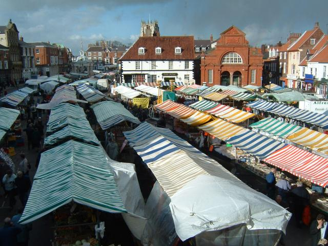 Beverley, East Riding of Yorkshire, England, on Market day.